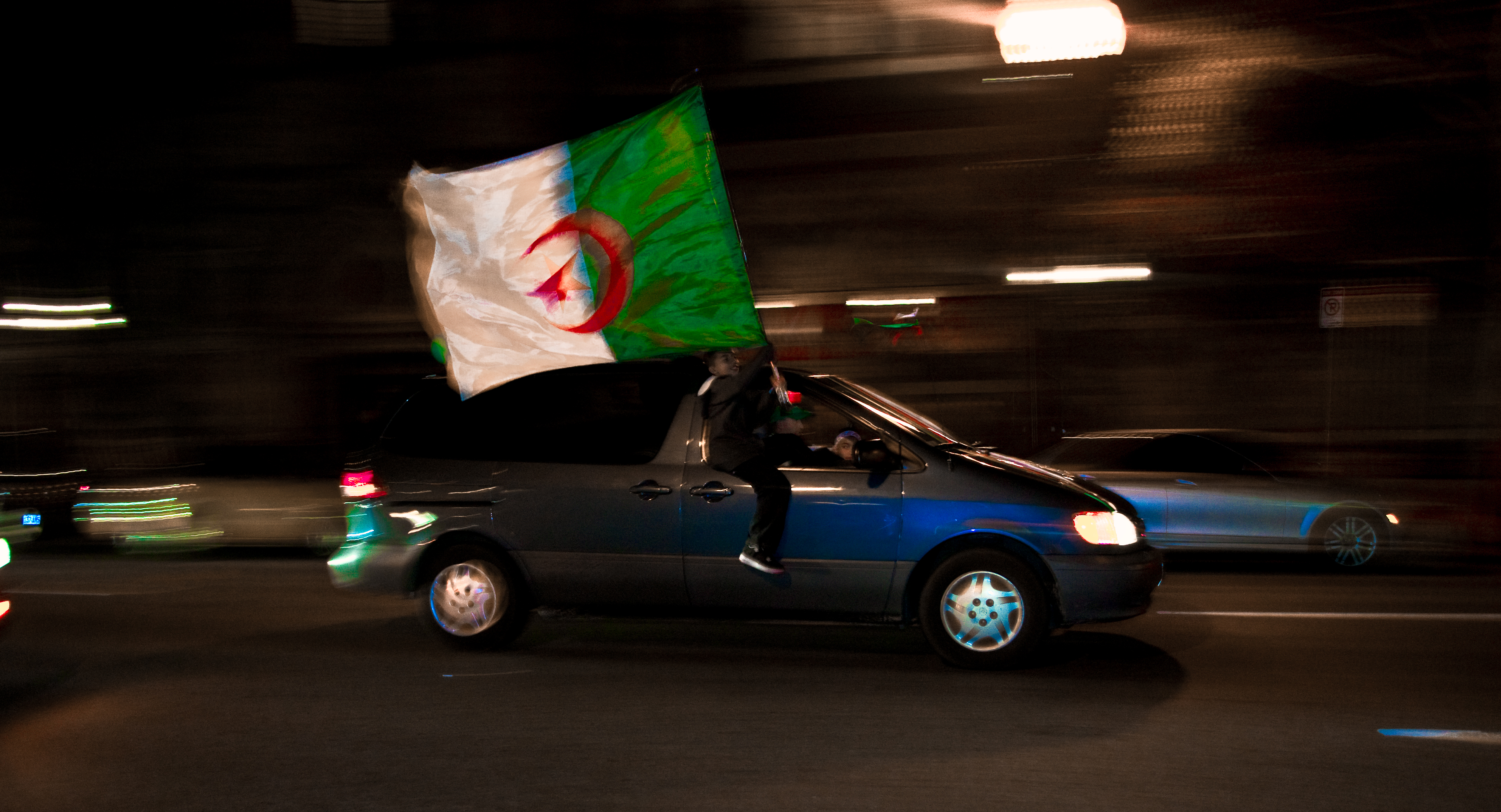 Algeria fans celebrating victory over Egypt in football match (november 2009)